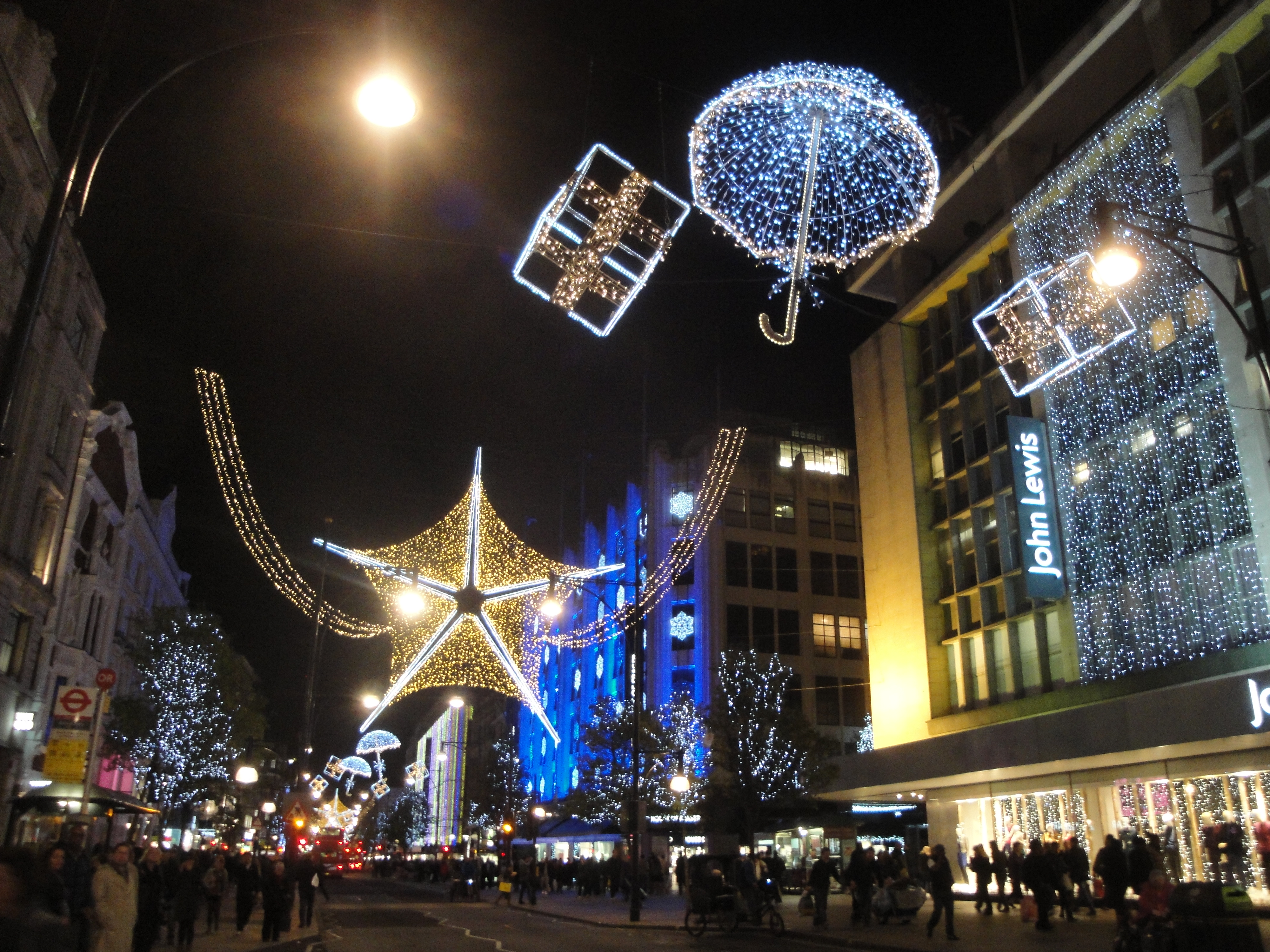 Christmas decorations along Oxford Street, Westminster (borough), London, in November 2011.